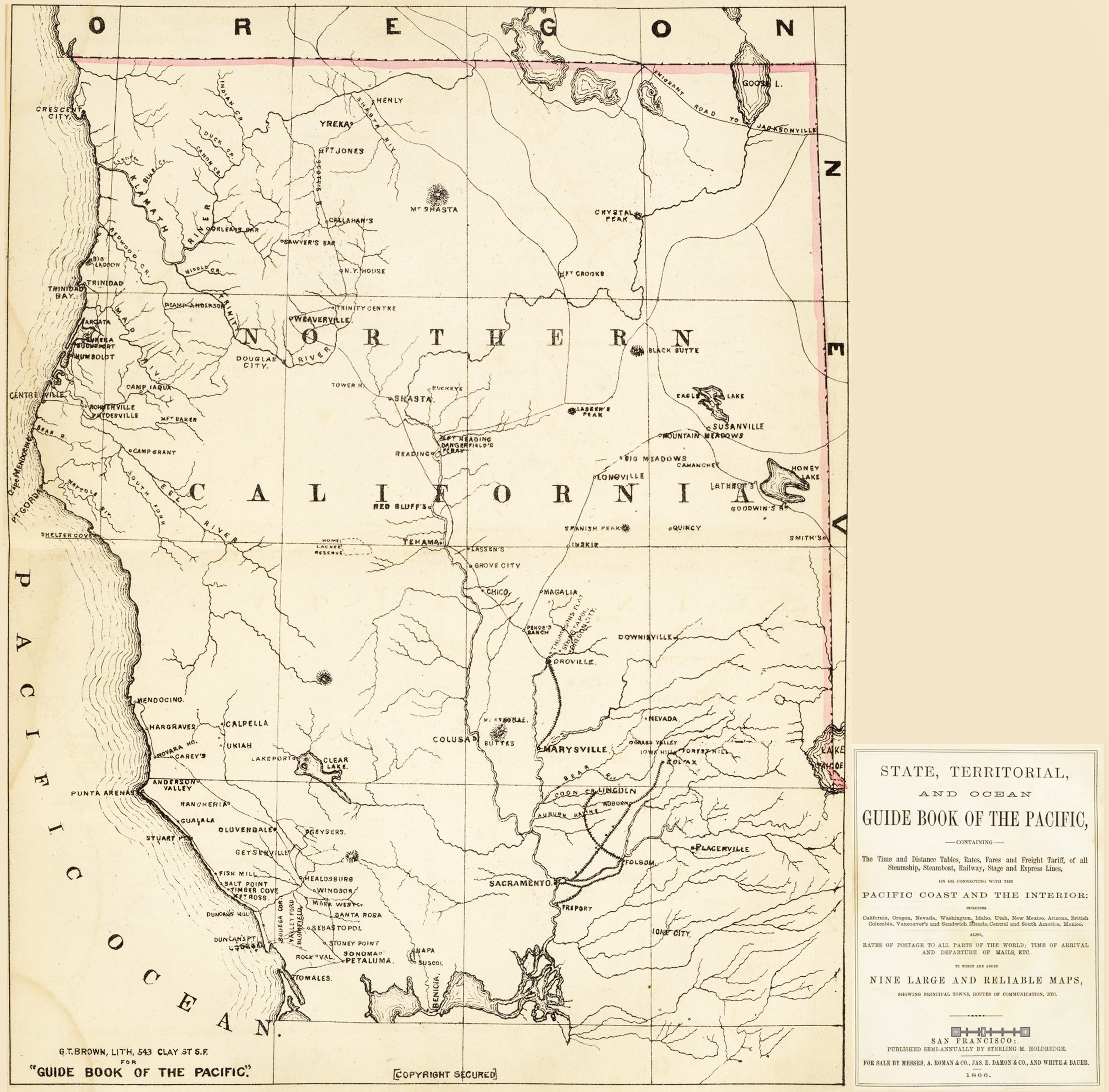 Historic map of Northern California in the 1860s (1866). From the Sacramento Delta region, Placerville, and Tomales Bay northwards. Including the former Klamath County (1851-1874) area in the northernmost state area. Credits A photomontage by Ellin Beltz of separate sheet Northern California Maps from: Holdredge, Sterling M., and Grafton Tyler Brown. State, Territorial, and Ocean Guide Book of the Pacific: Containing the Time and Distance Tables, Rates, Fares and Freight Tariff of All Steamship, Steamboat, Railway, Stage and Express Lines, on Or Connecting with the Pacific Coast and the Interior : Including California, Oregon, Nevada, Washington, Idaho, Utah, New Mexico, Arizona, British Columbia, Vancouver's and Sandwich Islands, Central and South America, Mexico : Also, Rates of Postage to All Parts of the World, Time of Arrival and Departures of Mails, Etc. Published by S.M. Holdredge, 1866. Map center is given as location below.